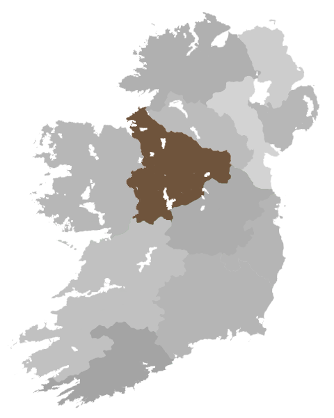 Location map of the Church of Ireland Diocese of Kilmore Information source: Church of Ireland website]